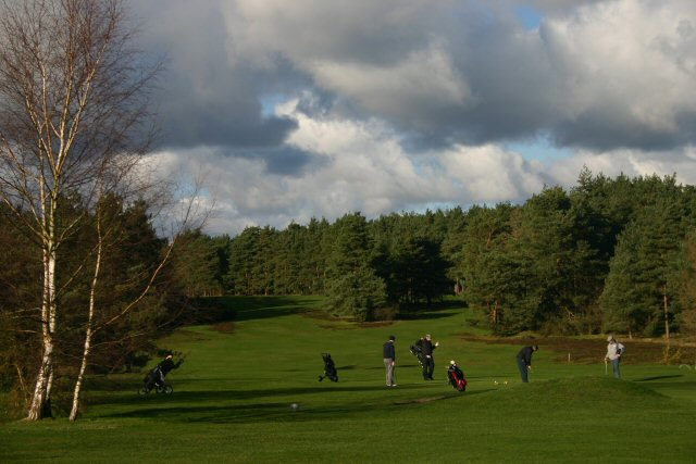 Thetford Golf Course The 18th green and 464 yards fairway.